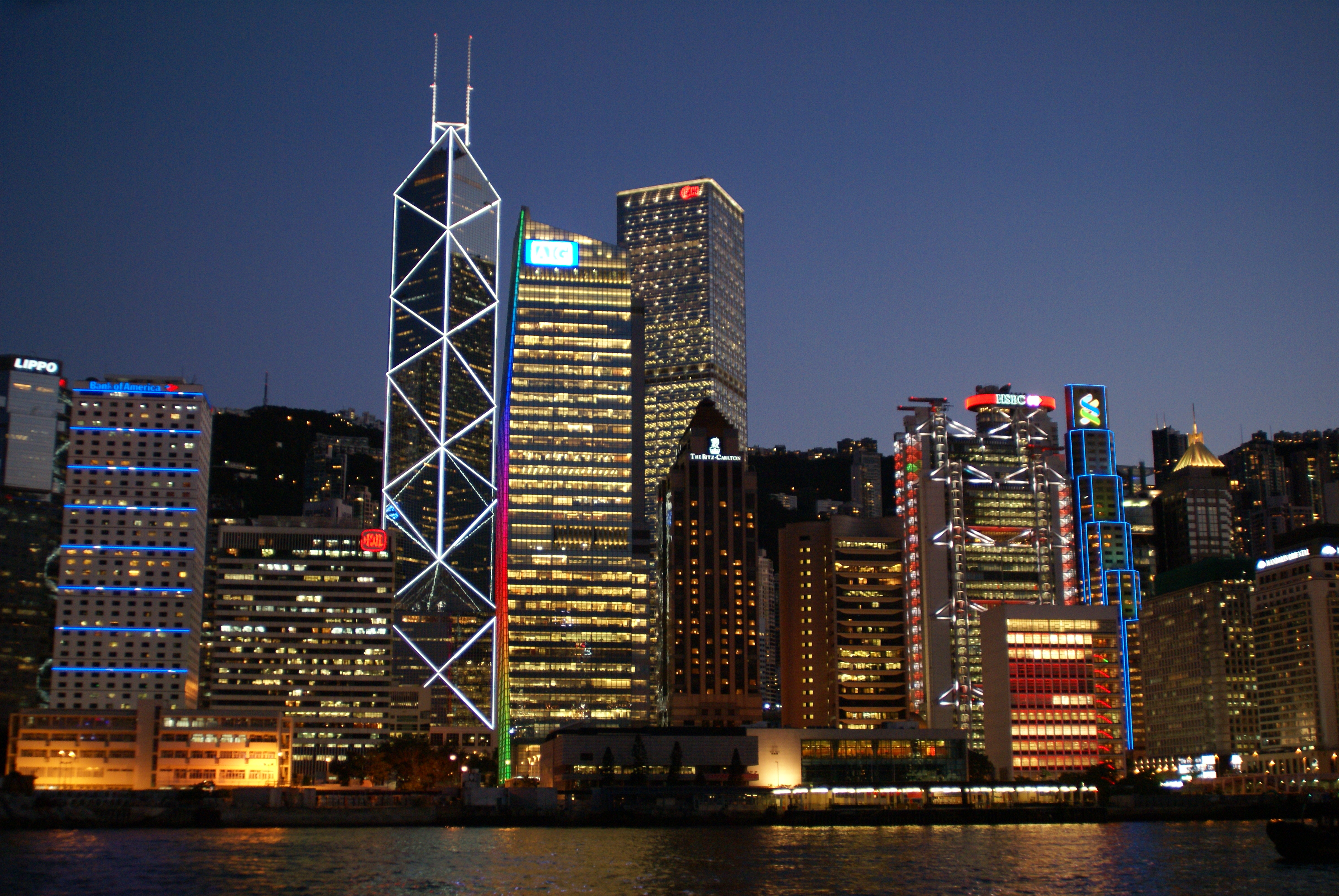 The view of Central, Hong Kong from a boat just off of the new Queen's Pier number 9.